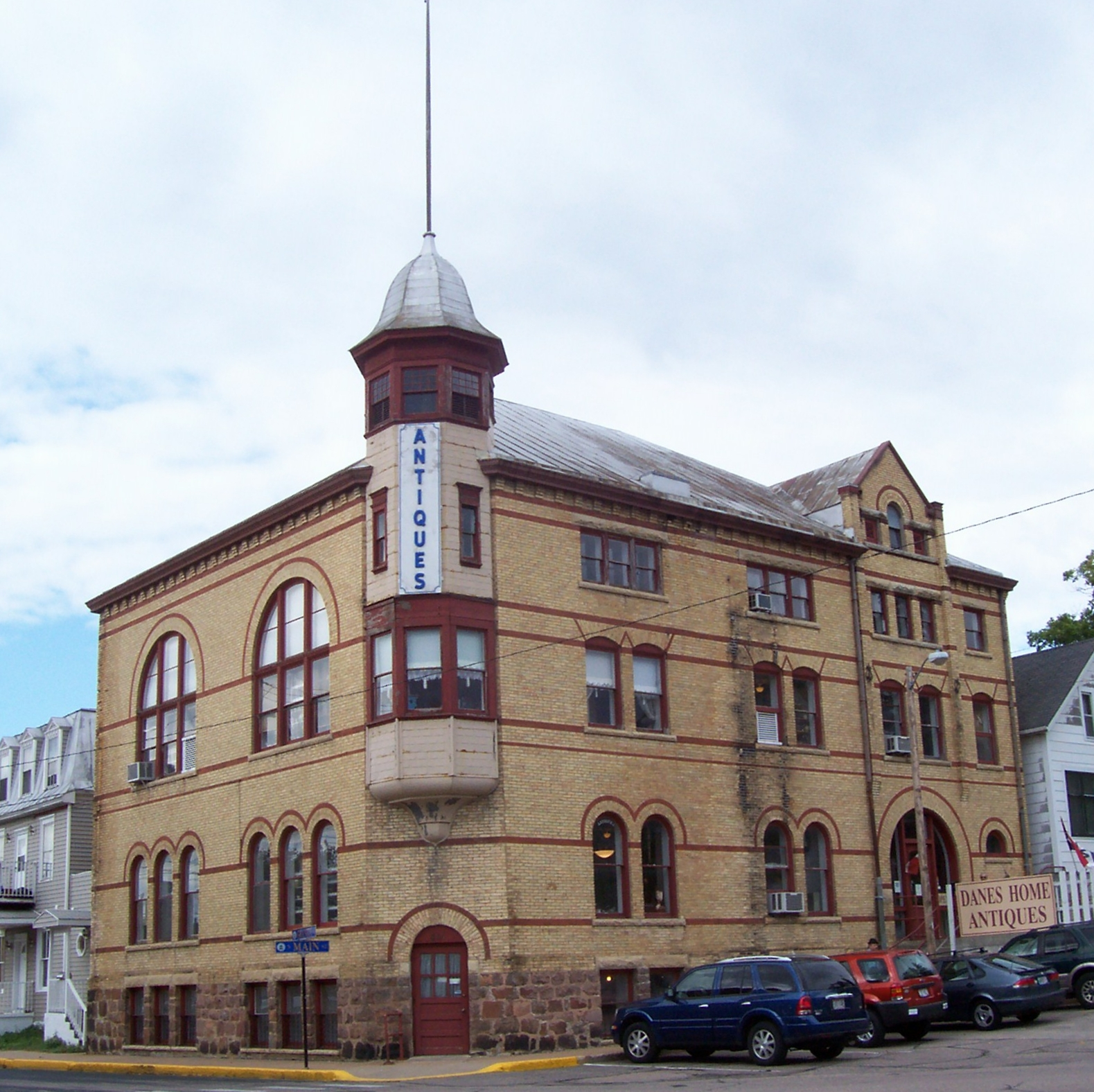 Looking northwest at Danes Hall in downtown Waupaca, Wisconsin, part of the Main Street Historic District. It is listed separately on the National Register of Historic Places.